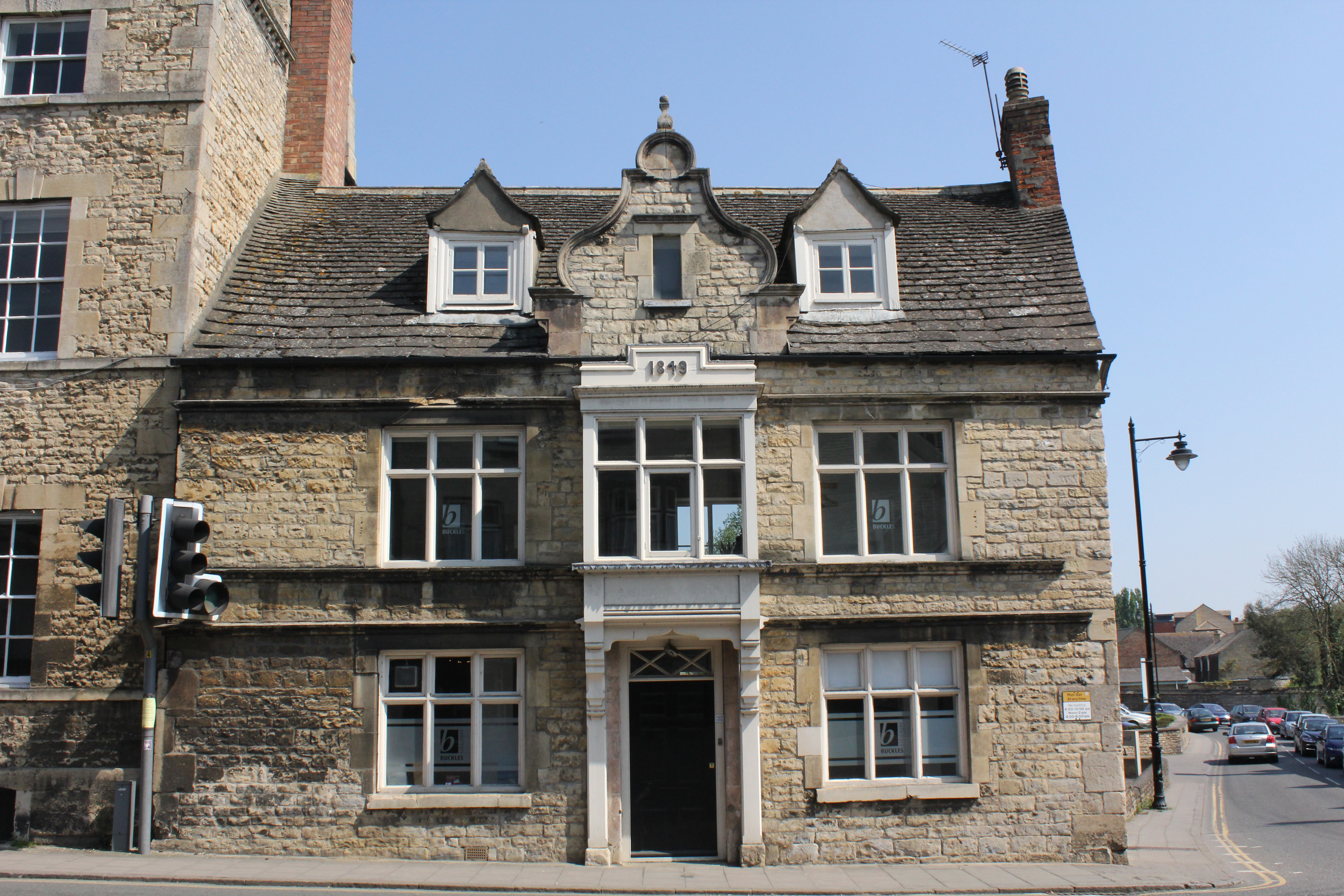 Former Boat Inn 3 St Mary's Hill. Grade II Listed building from the later 18th century and was originally the Boat Inn, later the Boat and Railway Inn. Much of the fabric of the 18th century inn survives but the present appearance is the result of alterations in 1849 by Edward Browning in connection with the rebuilding of the Town Bridge and adjacent toll-house. Remains of the following advert can be seen on the south wall 'Boat & Railway Hotel Melbourn's Sparkling Ales Bar ?????